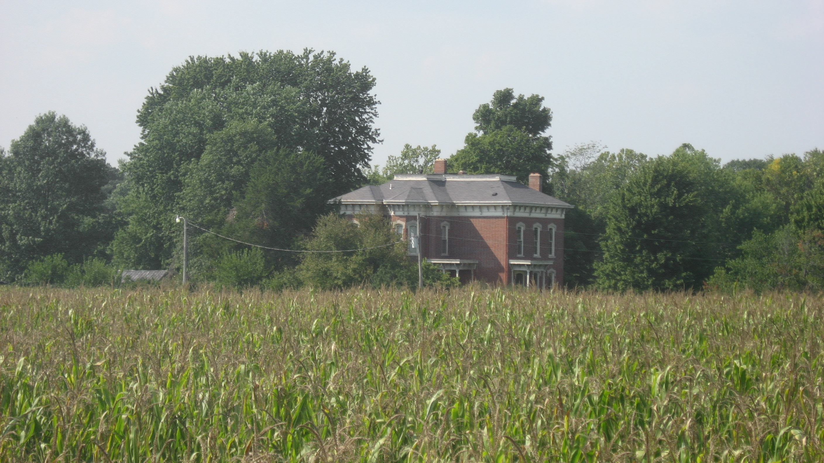 Distant view from the south of Ashby, located on Cornstalk Creek Road southwest of Ladoga in Scott Township, Montgomery County, Indiana, United States. Built in 1883, it is listed on the National Register of Historic Places.